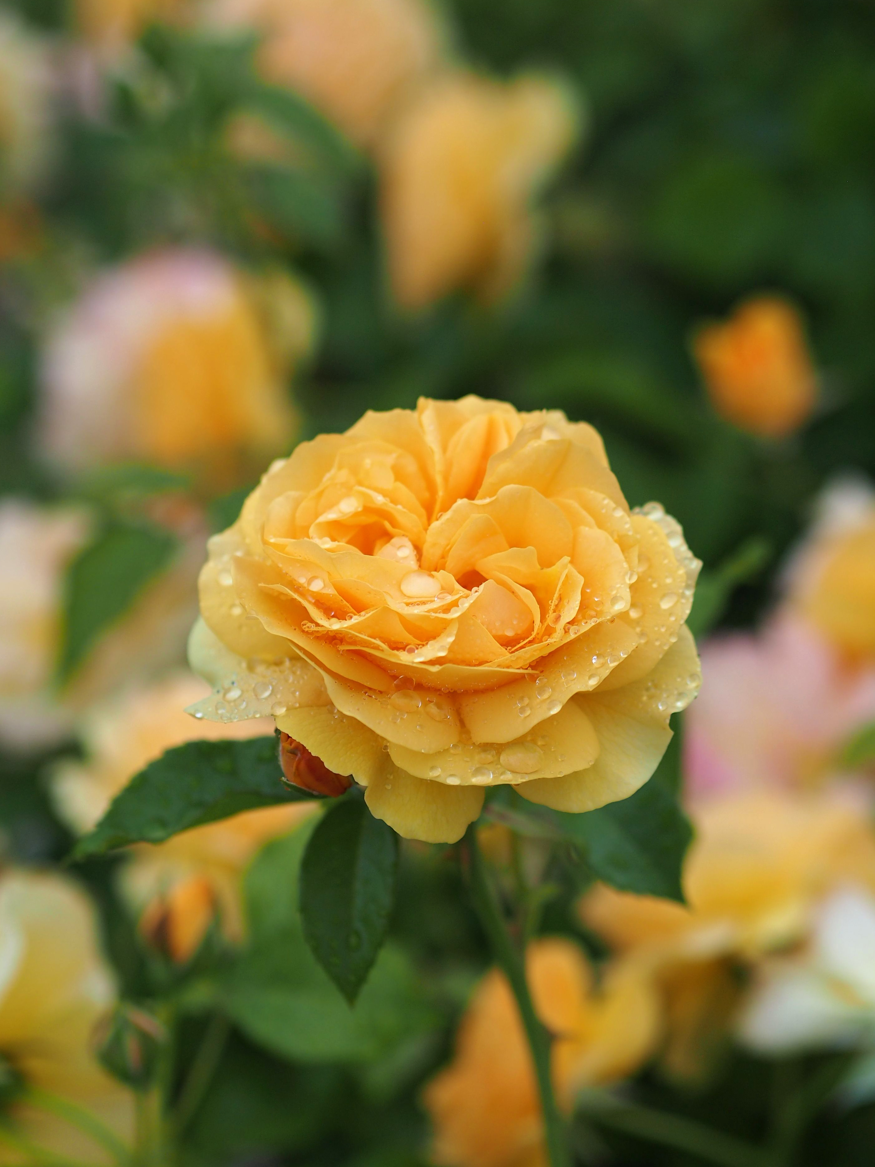 Rose, Julia Child, バラ, ジュリア チャイルド, Floribunda rose フロリバンダ United States of America アメリカ合衆国 Carruth 2006 yellow 黄色